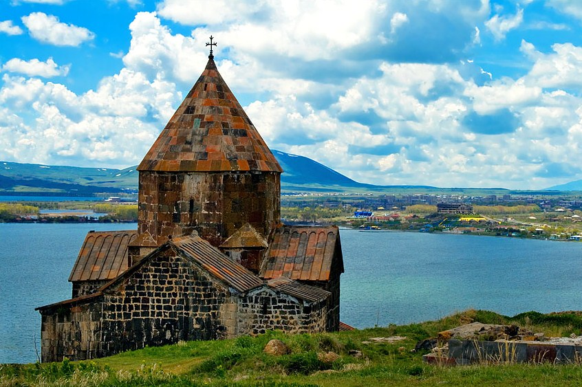 Sevan Mon., Armenia